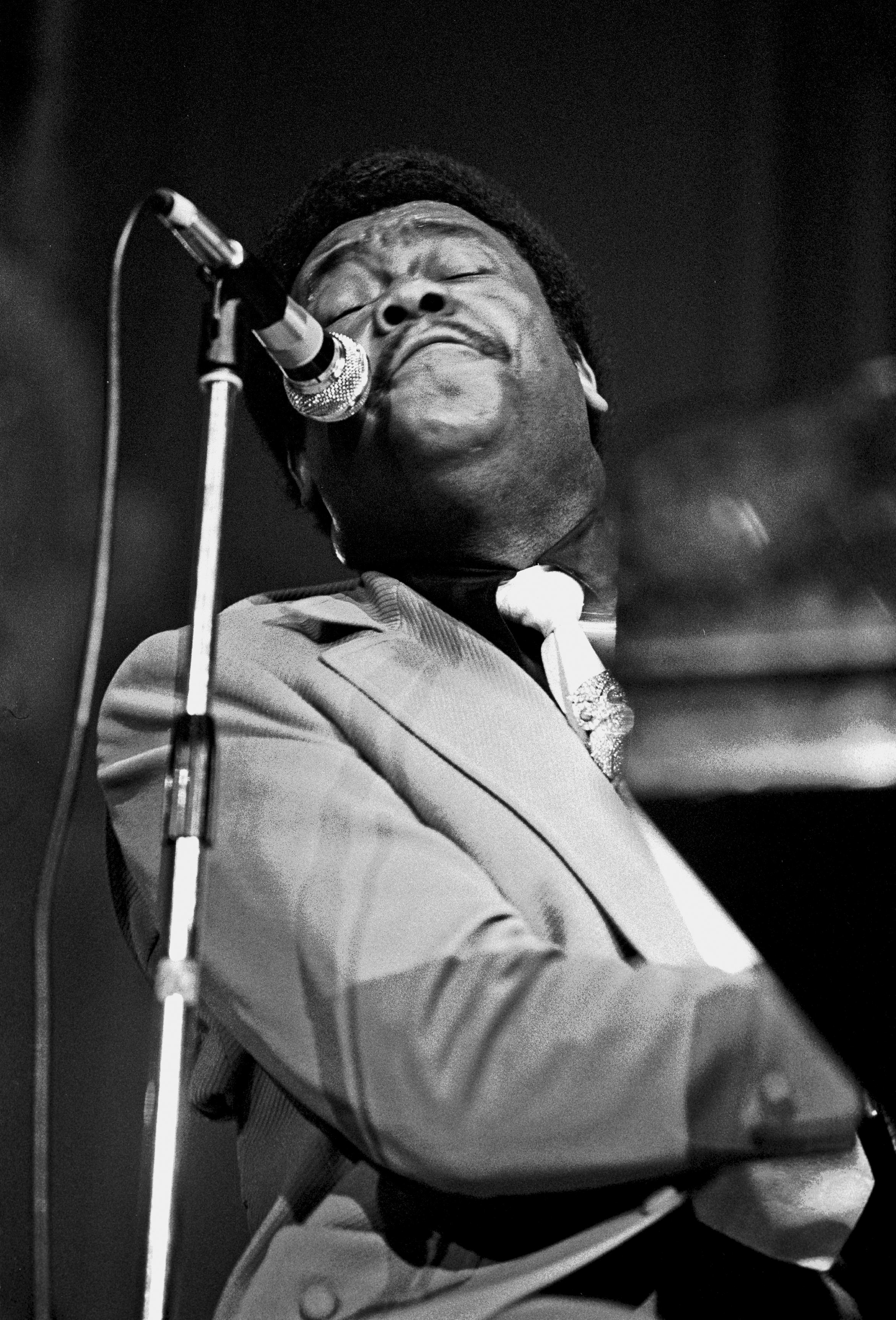 Fats Domino playing in Hamburg, Germany, 1973.